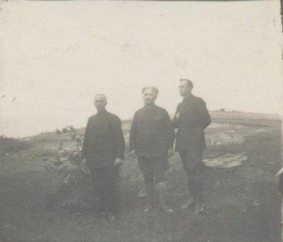 IMARO revolutionary/ies